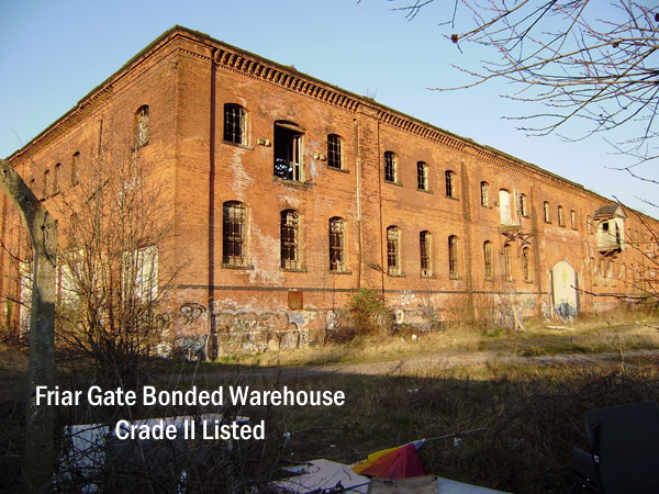 This is the grade II listed bonded warehouse at Friar Gate Station. This was owned by the Great Northern Railway Company and was sold to Derby City Council. The building has suffered many years of vandalism, but has been earmarked for preservation and conversion into apartments. So far the developer has made no attempt to develop the building. Some measures have been taken to help protect it from further damage.